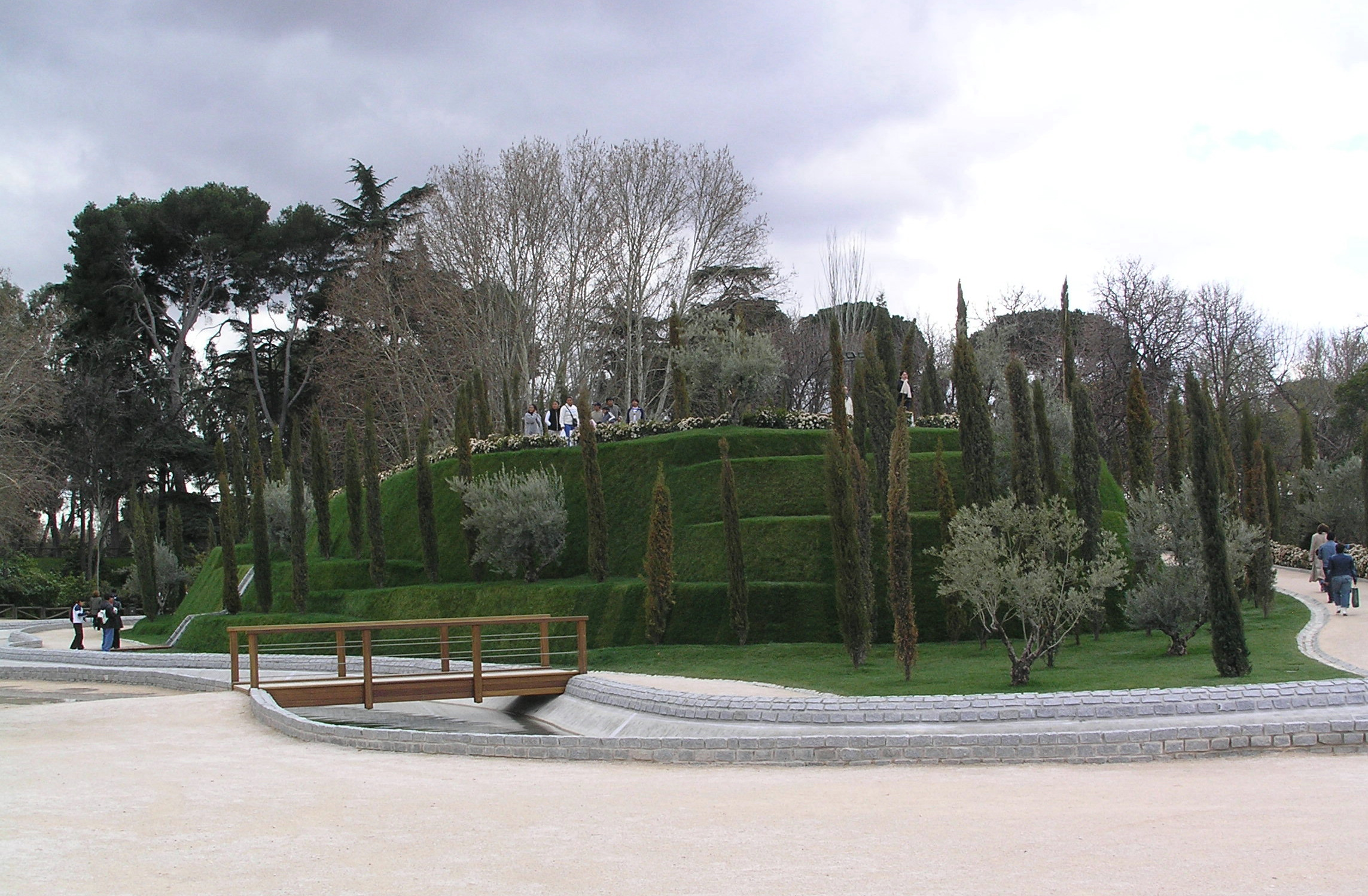 Bosque de los Ausentes (memorial for the victims of the 11-M terror blasts in Madrid), parque del Retiro, Madrid, Spain